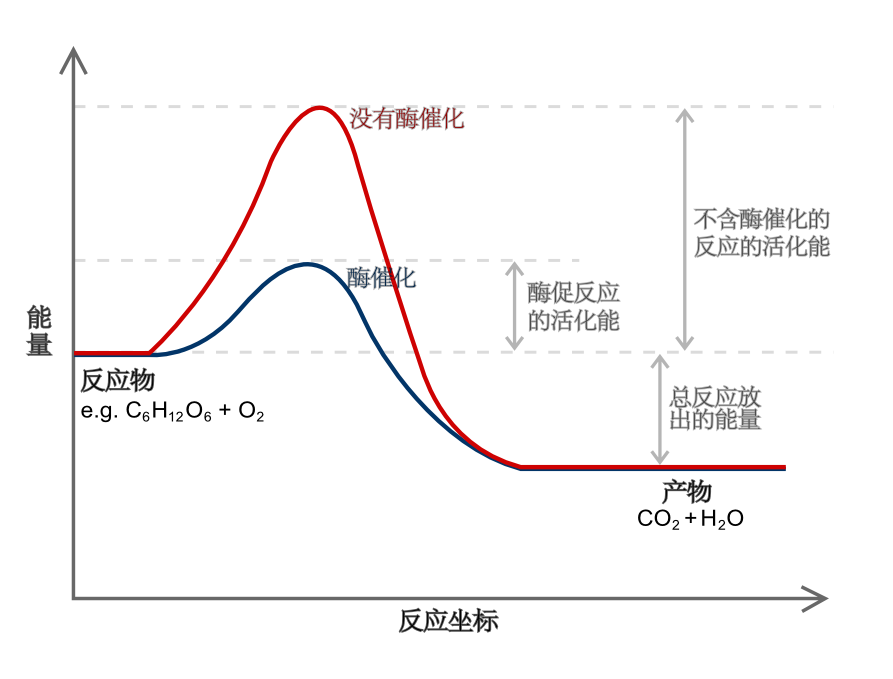 Ea